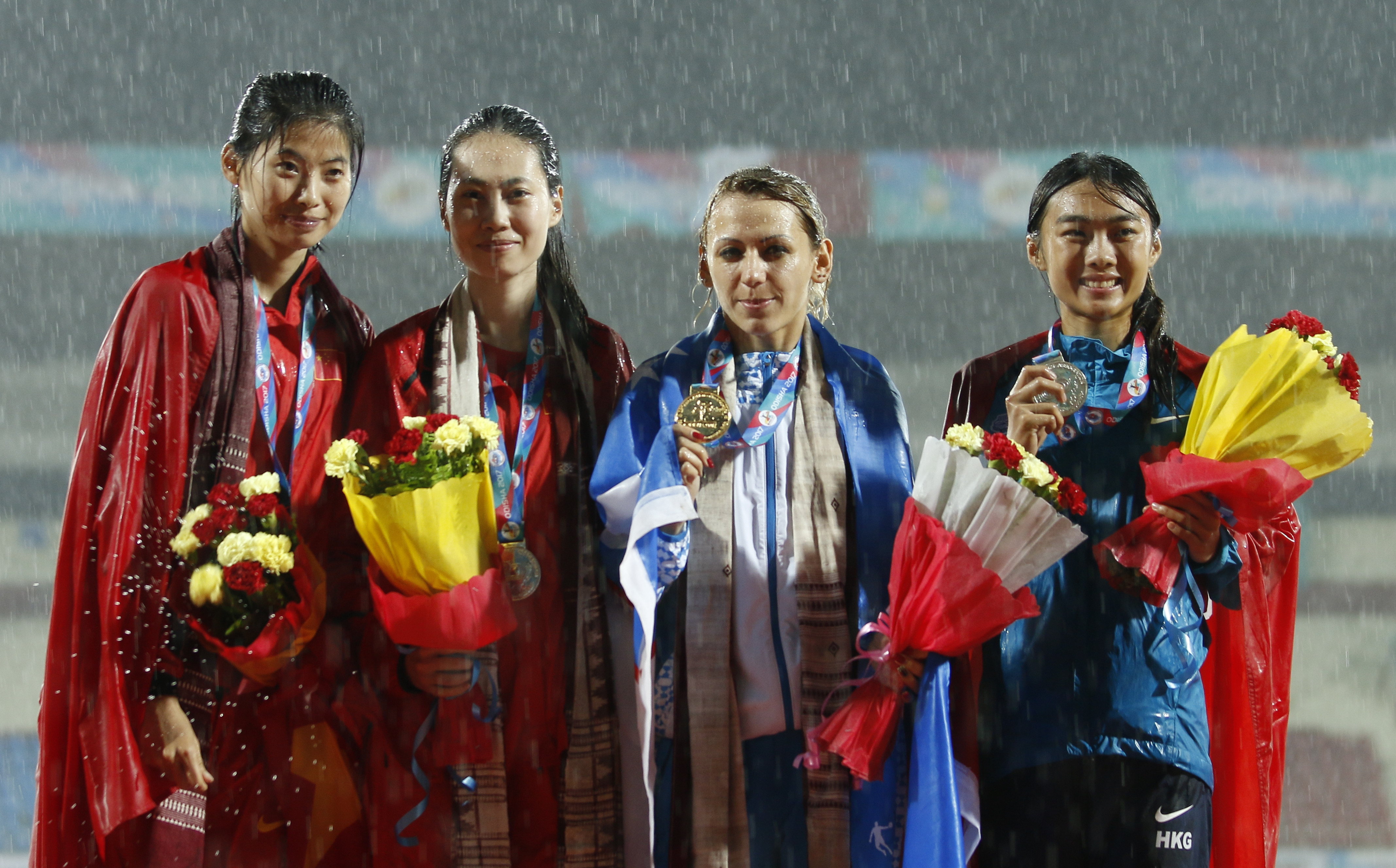 Athletes during 22nd Asian Athletics Championships in Bhubaneswar. Gold Nadiya Dusanova 749 17-11-87 UZBEKISTAN 1.84m Silver Yeung Man Wai 238 18-09-94 HONG KONG 1.80m Silver Wang Xueyi 167 08-03-91 CHINA 1.80m Silver Liu Jingyi 151 27-10-94 CHINA